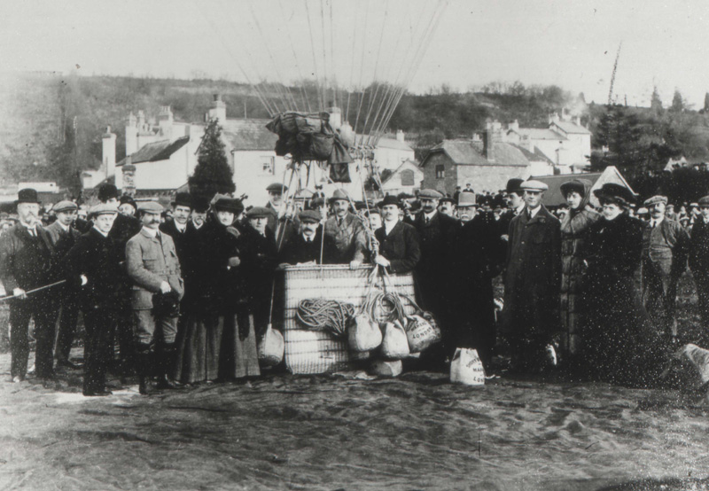 Monmouth Gasworks, 1906 Charles Rolls(in basket) and his balloon, with Lord Llangattock (one right of Rolls) and Lady Llangattock (left of basket). Monmouth Museum Identity Number: M603